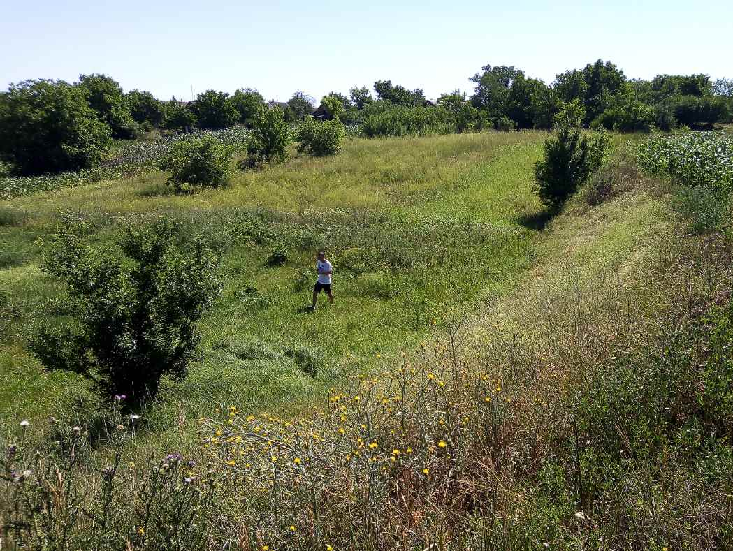 Old pond's damb, Zatyshshia